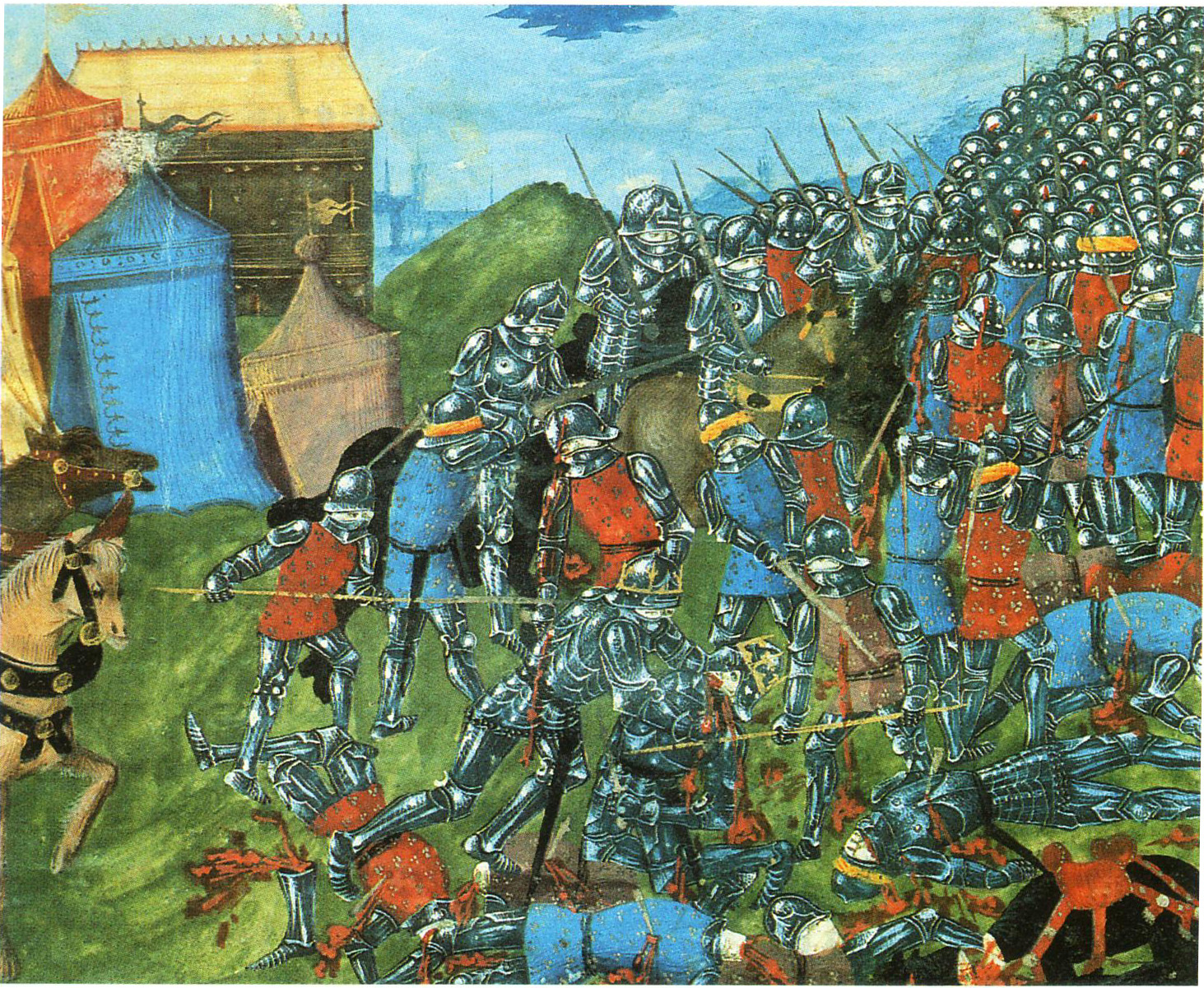 Clovis killing Alaric II at the Battle of Vouillé. 15th century miniature from the National Library of France in Paris.